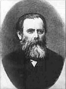 This is a retouched picture, which means that it has been digitally altered from its original version.